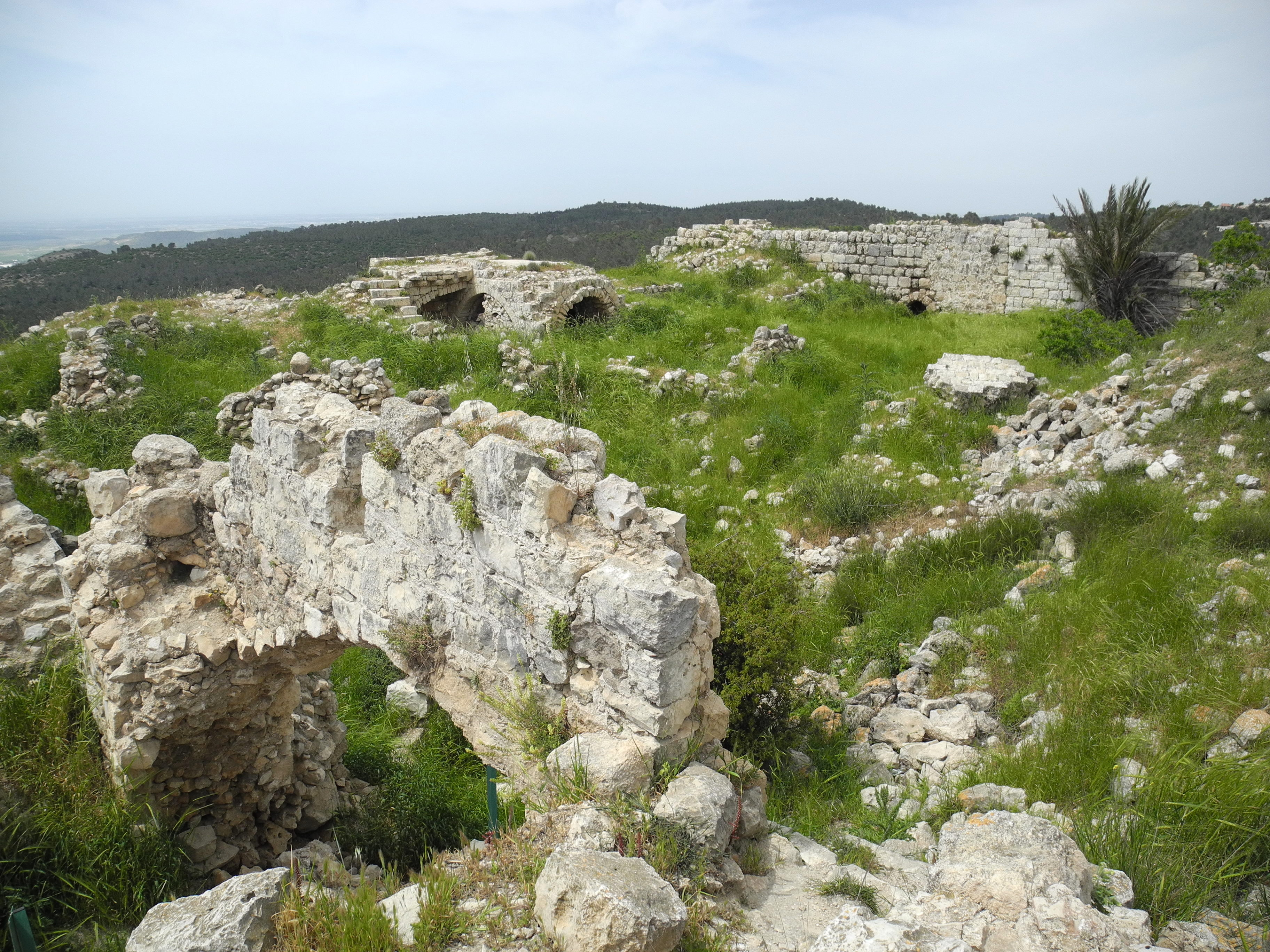 Bayt 'Itab